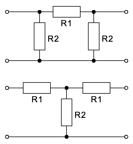 Attenuator circuits: PI pad (top), T pad (below)